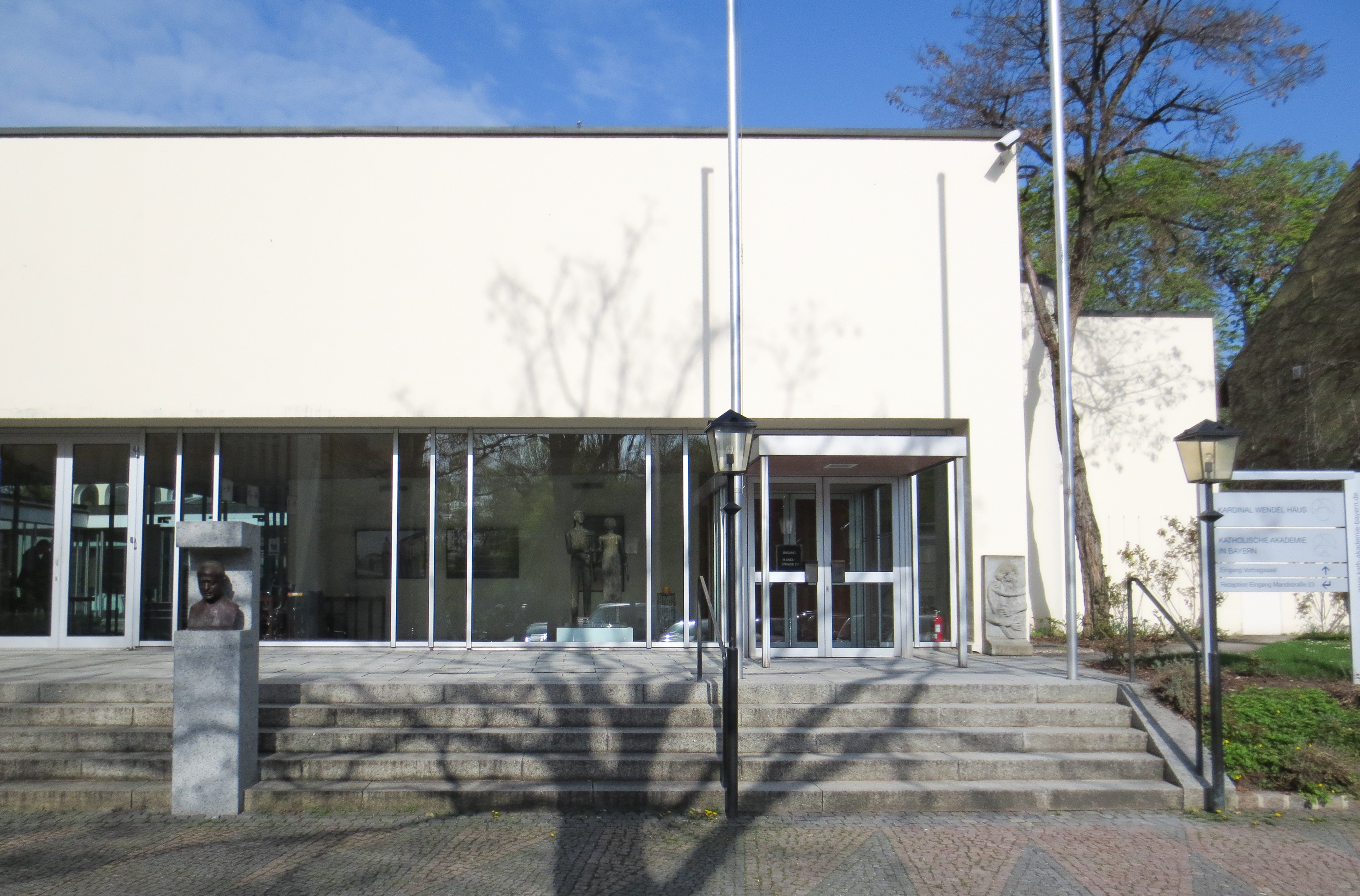 The catholic academy in bavaria.